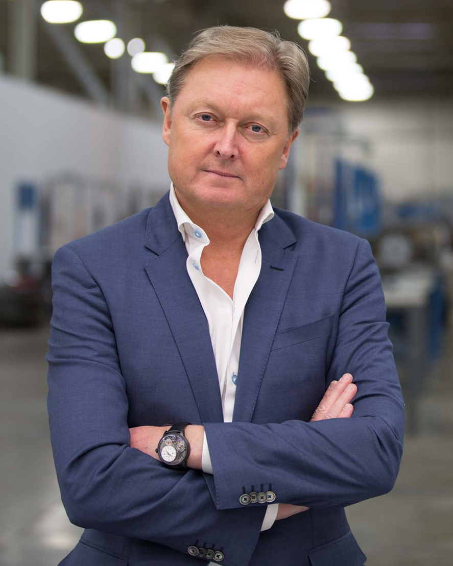 A 2016 photo of automotive designer Henrik Fisker.